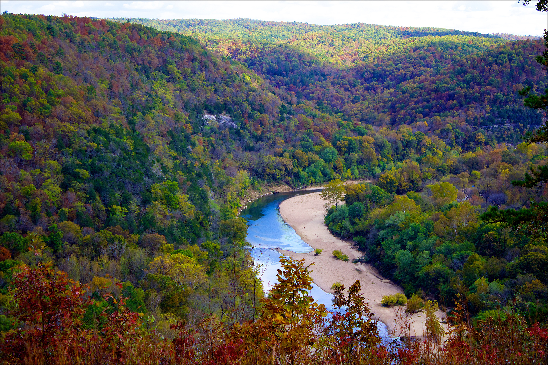 Autumn colors begin to take hold in the valleys of the Buffalo River.